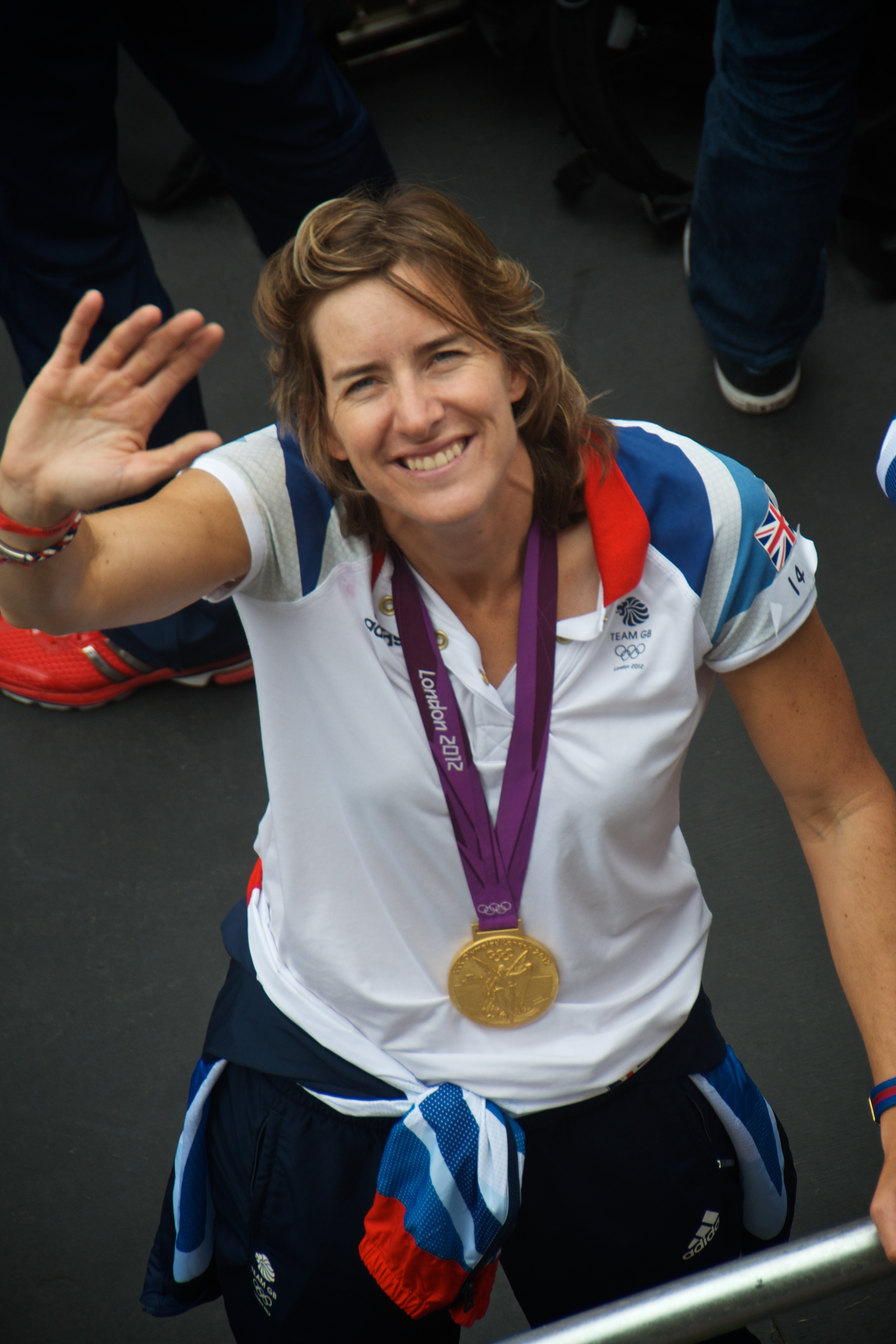 Rowing, double sculls. Third time's a charm!